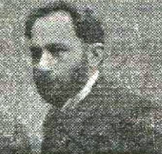 Luarsab Andronikashvili, a Georgian lawyer.